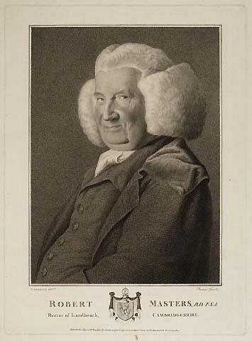 Portrait of Robert Masters (1713–1798), English clergyman and academic.